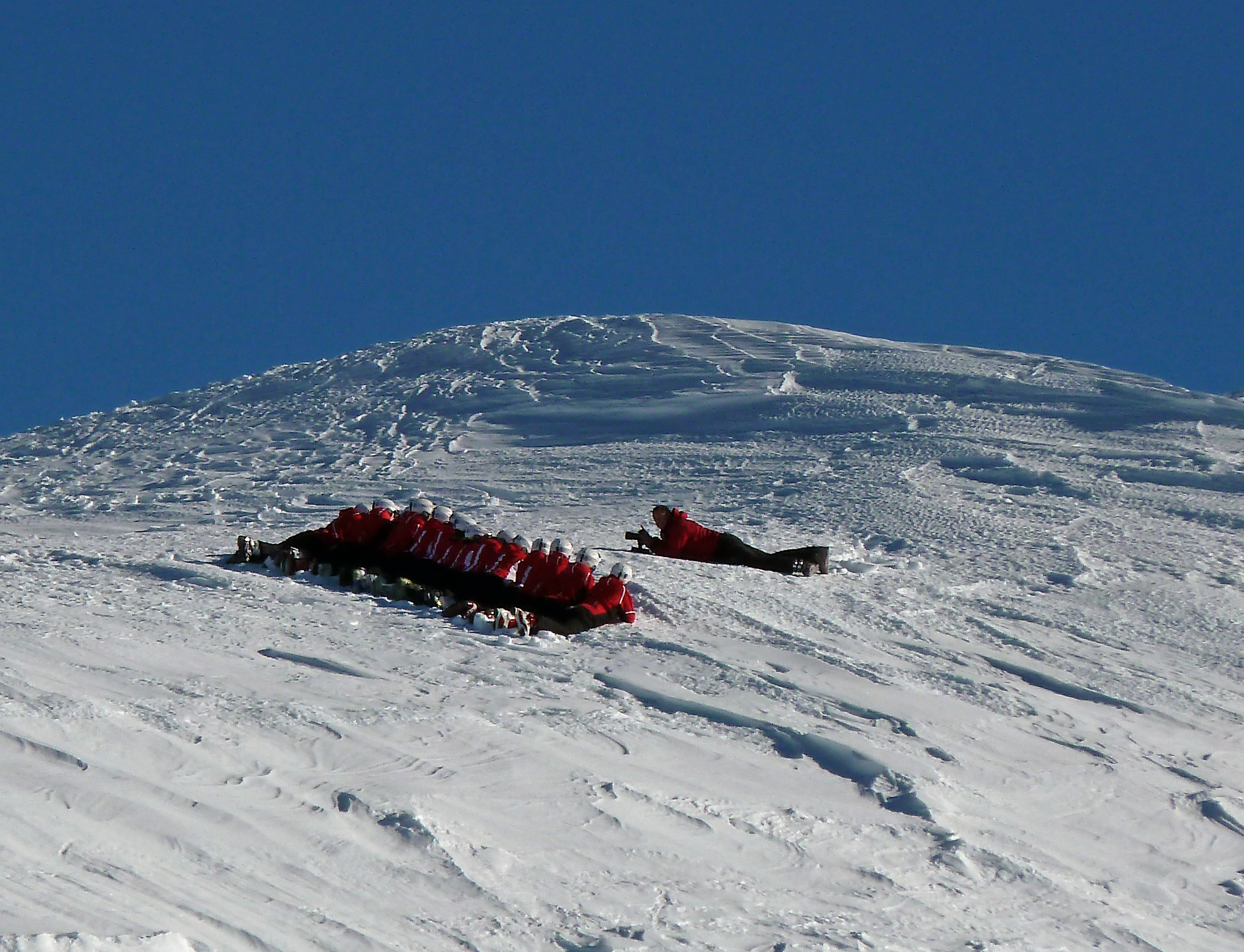 Alpine skiing instructors during a foto shooting at the Kreuzkogel in the skiing area of Sportgastein. Sportgastein is an alpine skiing area in the Gastein valley in Salzburg (state). From the Nassfeld valley which is the name of the southern end of the Gastein valley the gondola lift Goldbergbahn leads in two sections up to the Kreuzkogel (2686 m), the starting point of several downhill skiing slopes. On clear days there is a spectacular sight over the Gastein valley and the surrounding mountains.